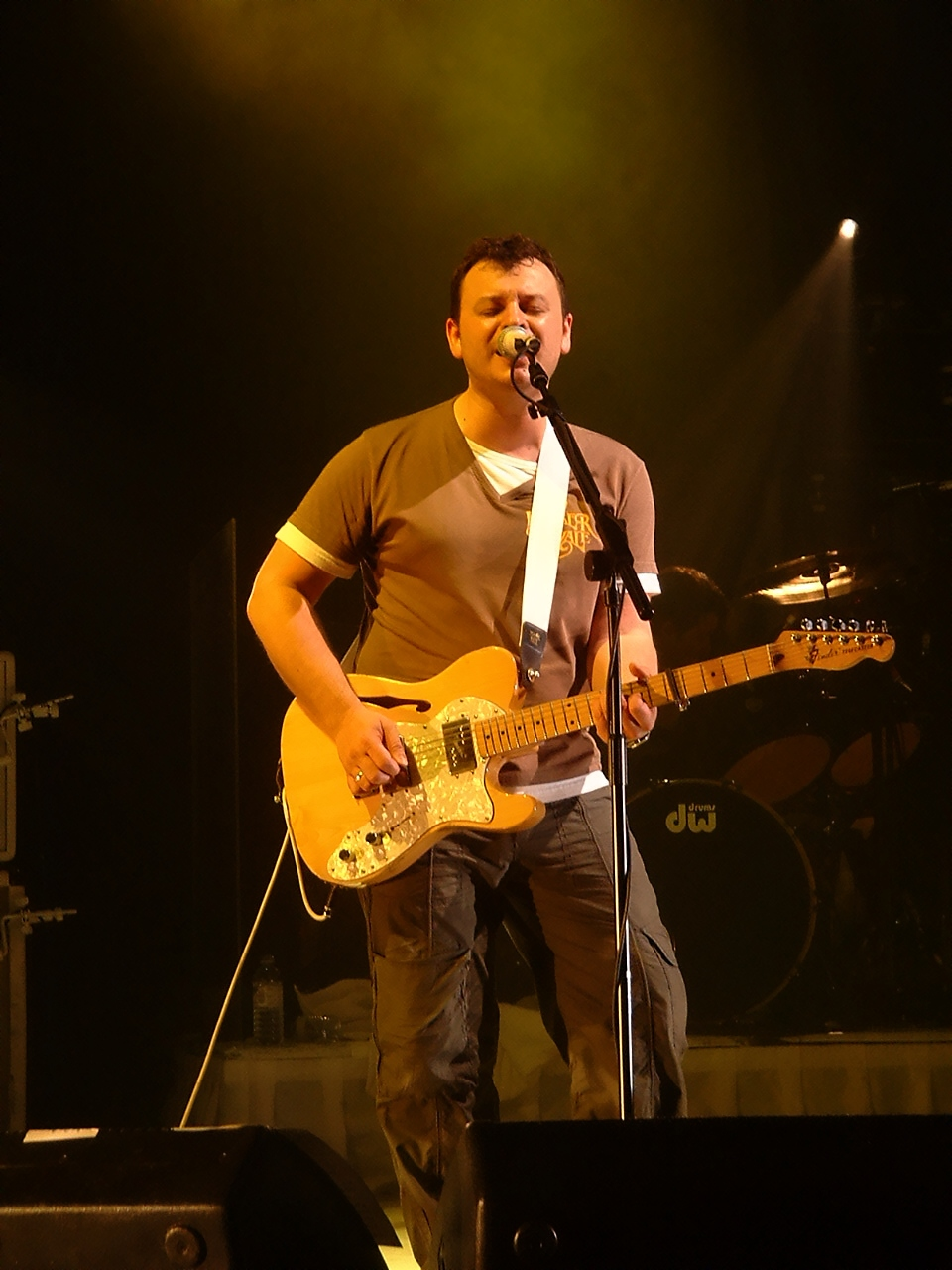 Manic Street Preachers live in London